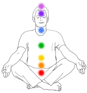 Illustration of the main 7 Chakras, as taught by contemporary Reiki masters.